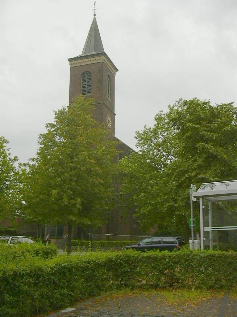 Schophoven kirche own work papa1234 206-07-30